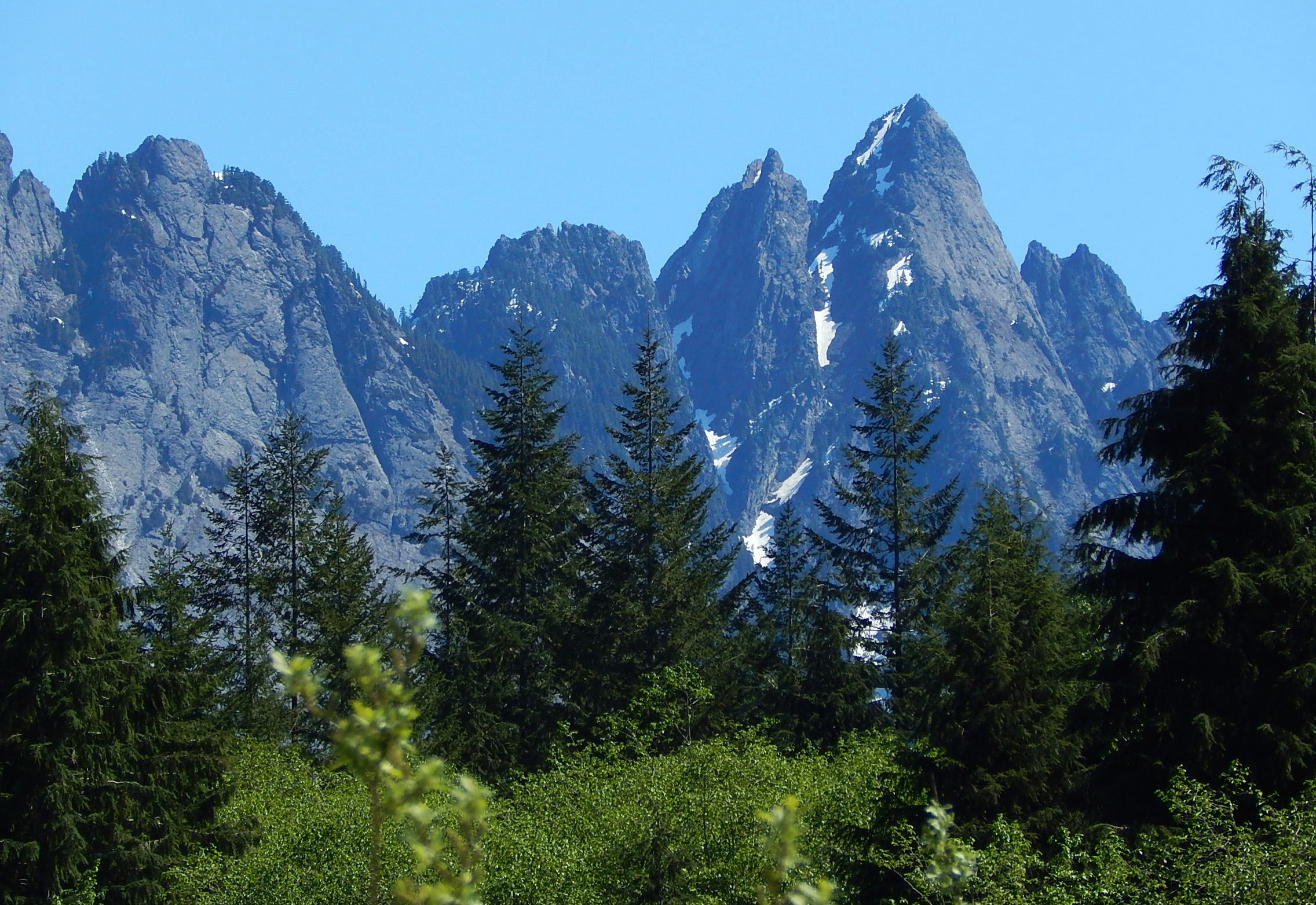 Garfield Mountain, aka Mount Garfield in Washington state in Snoqualmie valley as seen from Pratt River Bar